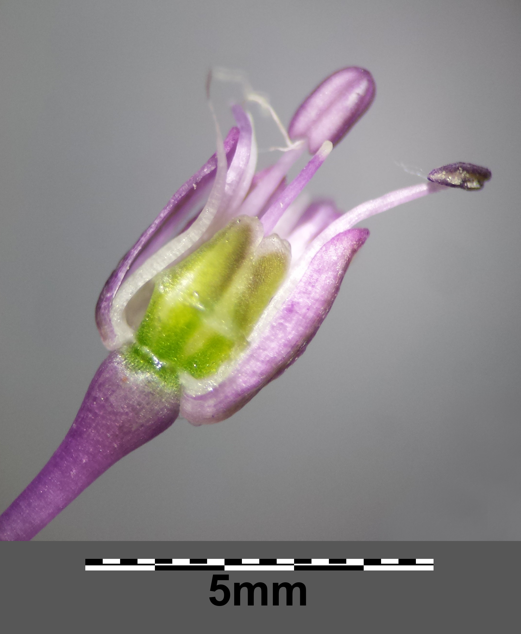 Flower opened Taxonym: Allium vineale ss Fischer et al. EfÖLS 2008 ISBN 978-3-85474-187-9 Location: Neue Donau, Vienna-Floridsdorf - ca. 160 m a.s.l. Habitat: dry meadows